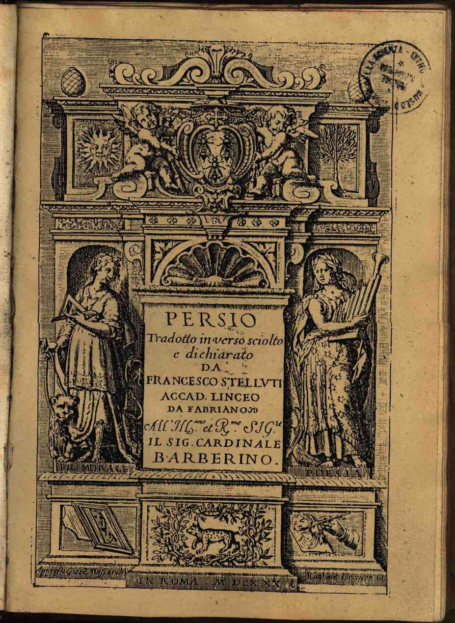 Persio: title page